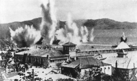 Australian War Memorial image P02018.068. Bombs explode in Port Moresby's harbour during one of the first Japanese air raids on the town in 1942